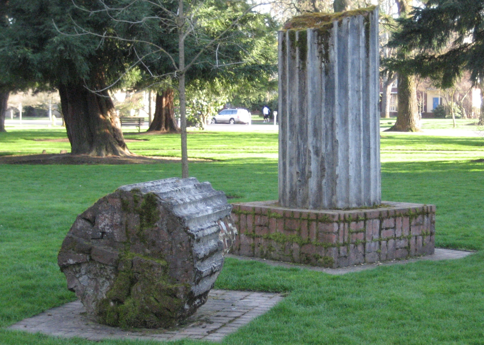 Old pillars of old capitol in Salem